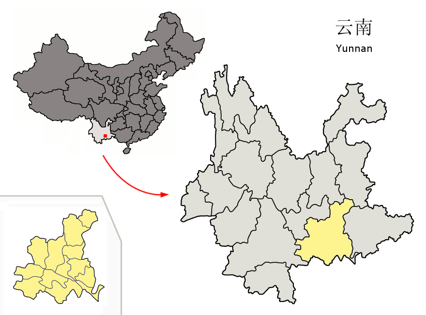 Location of Honghe Prefecture (yellow) within Yunnan province of China Map drawn in september 2007 using various sources, mainly : Yunnan province administrative regions GIS data: 1:1M, County level, 1990 Yunnan Counties map from